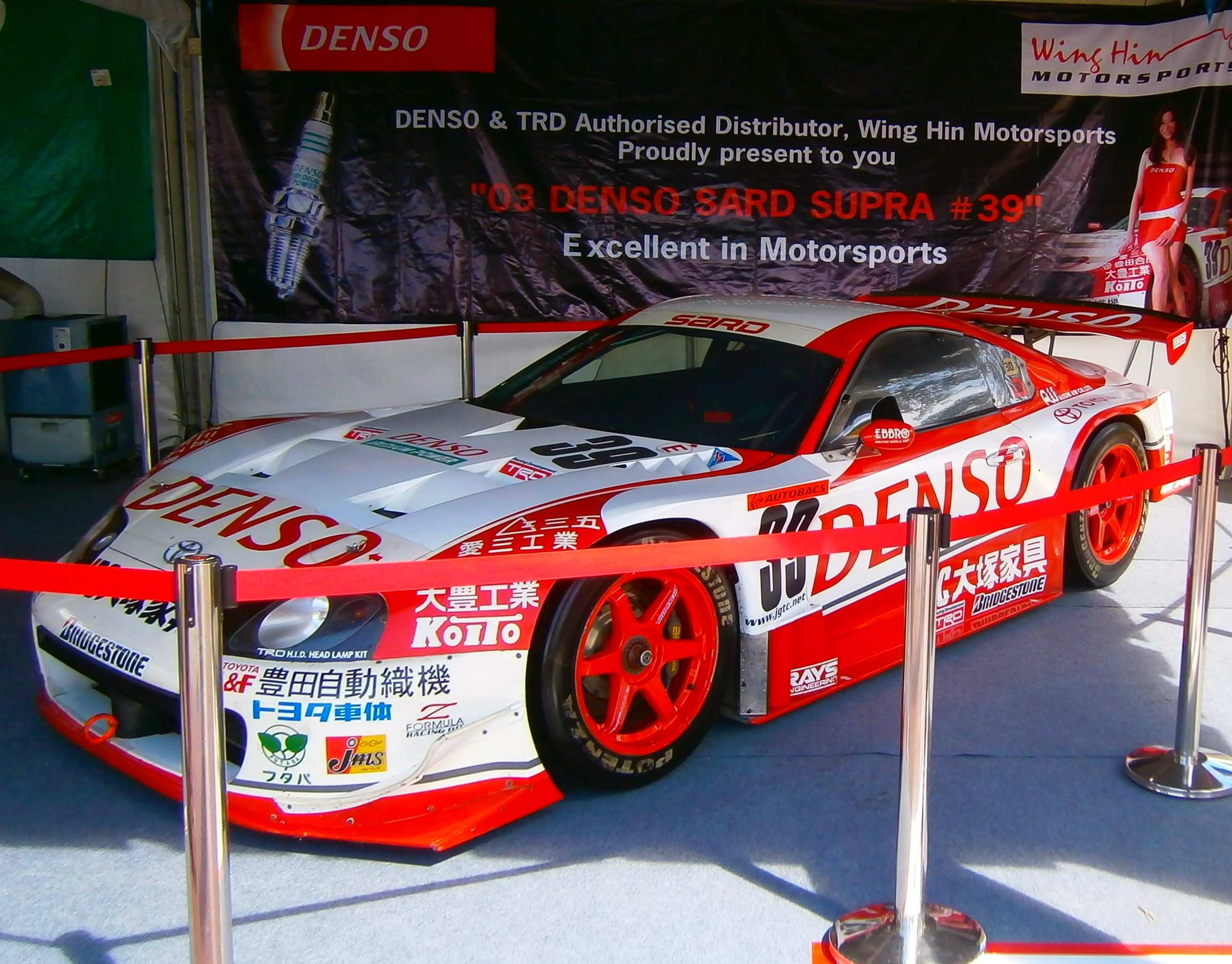 2003 Toyota DENSO SARD Supra (JGTC) #39 at Sepang Intl. Circuit, Malaysia.Designed & Assembled in Japan Note : Photo was taken at the Super GT 2012, Round 3, Malaysia race.